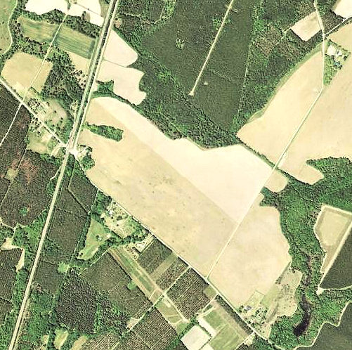 USGS digital orthophoto of Lane Airport in South Carolina